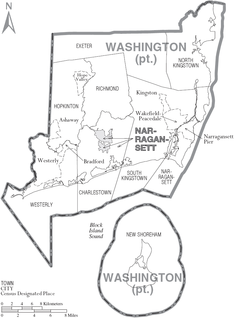 Map of Washington County, Rhode Island, United States with township and municipal boundaries